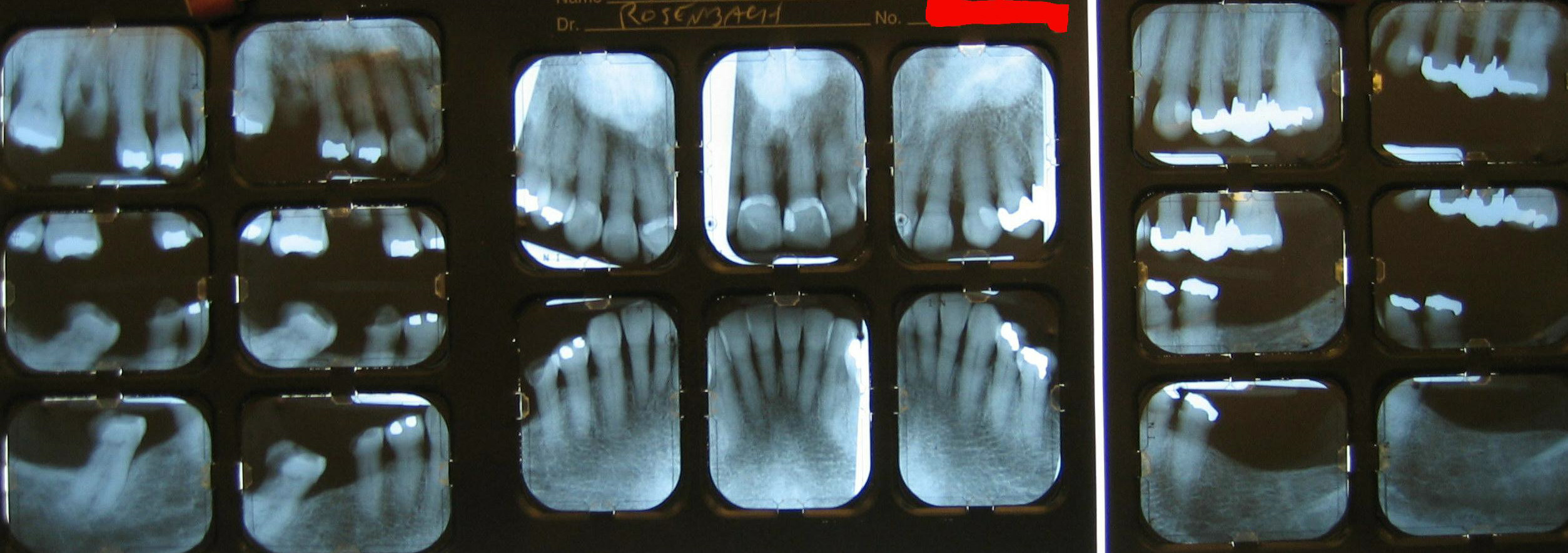 Examples of dental radiography